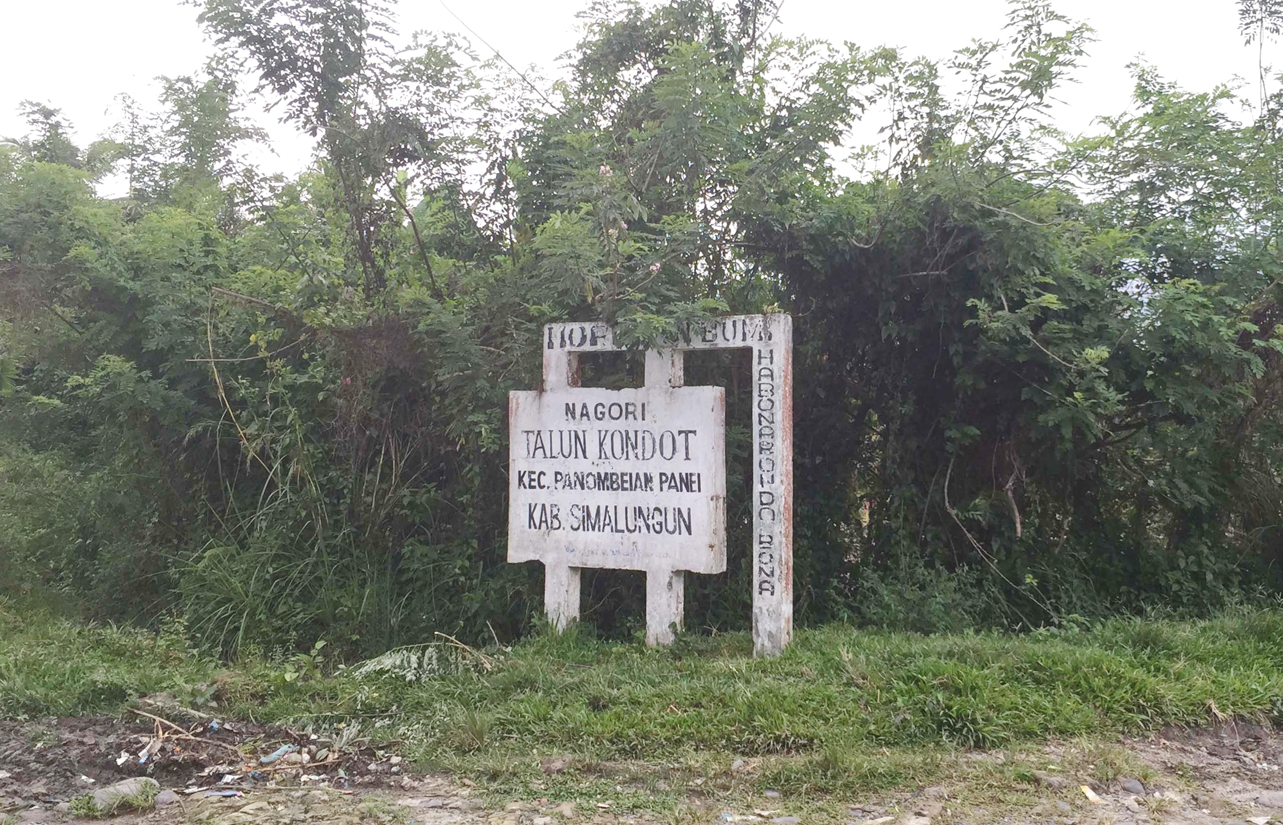 Welcome gate to Talun Kondot, Panombeian Panei, Simalungun